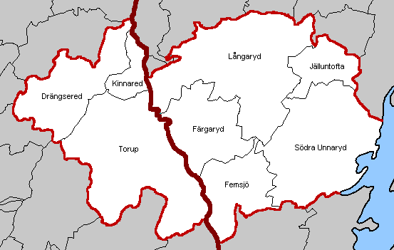 socken in Hylte